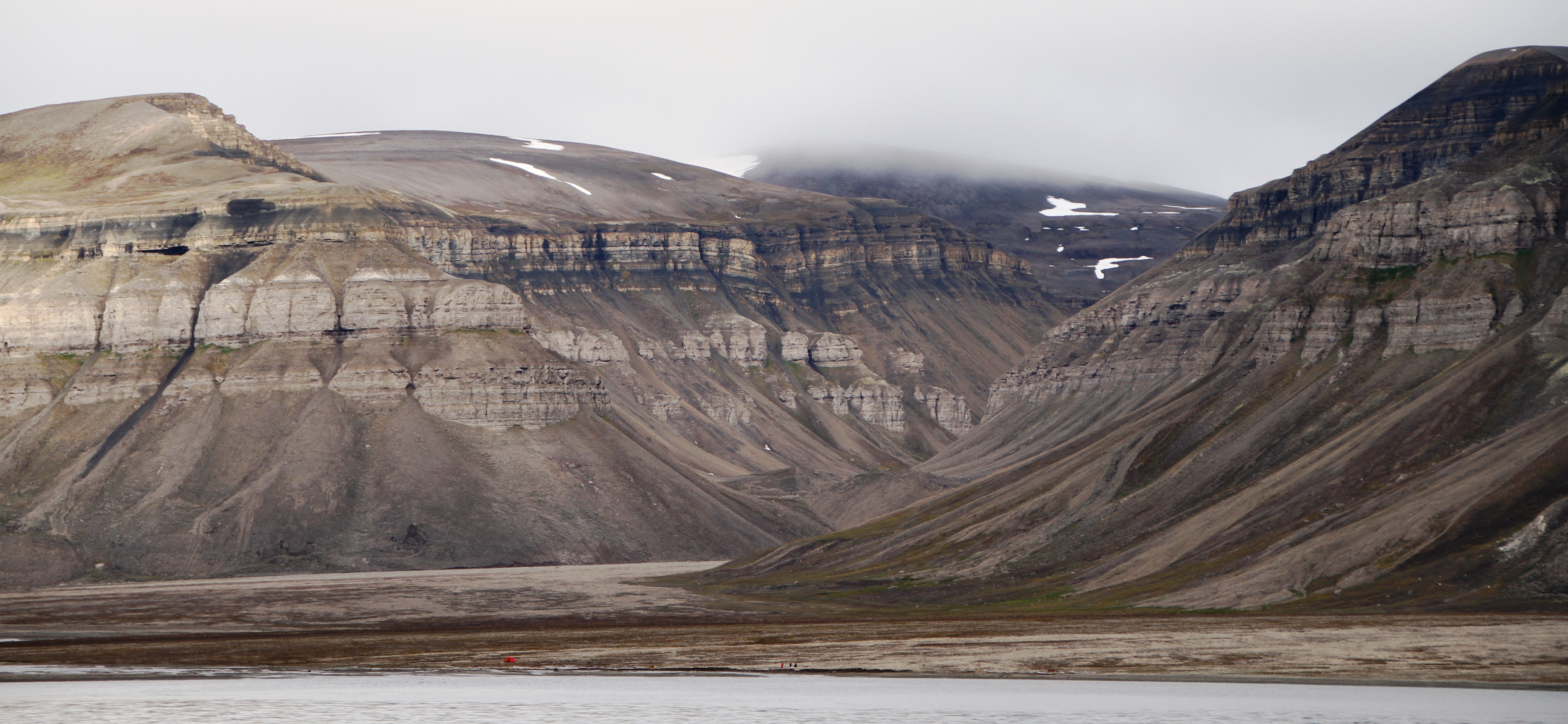 Photo from the eastern coast of Dickson Land - western Billefjorden, in the bottom of Isfjorden fiord - central Spitsbergen.